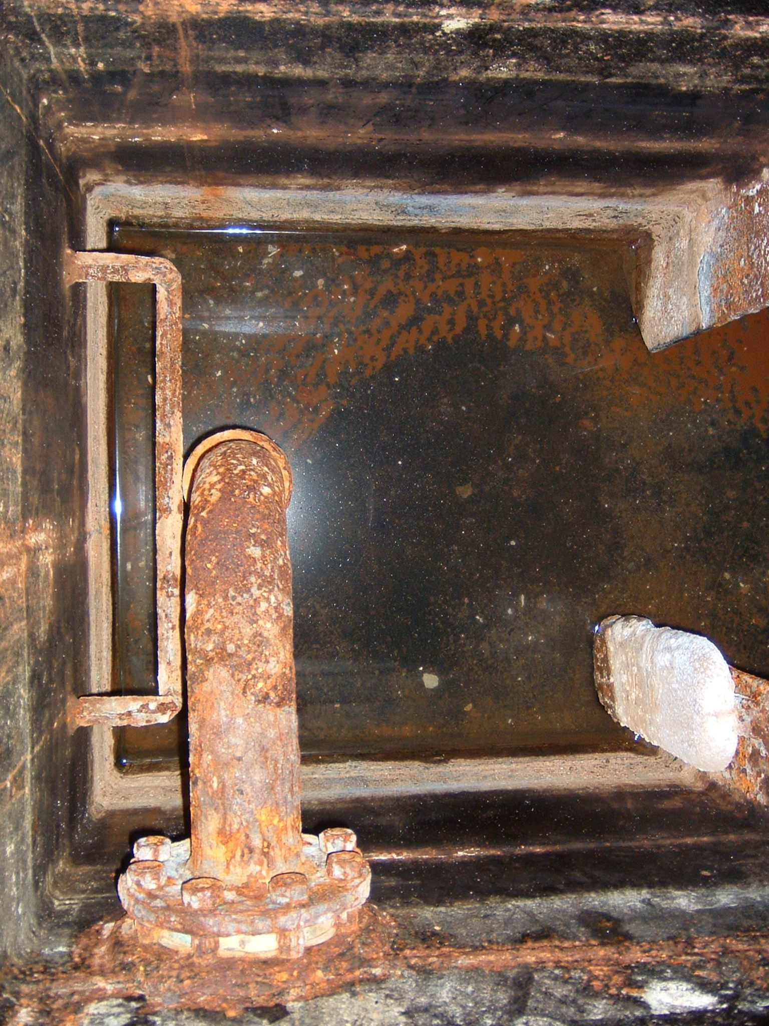 Bilge well (ship)